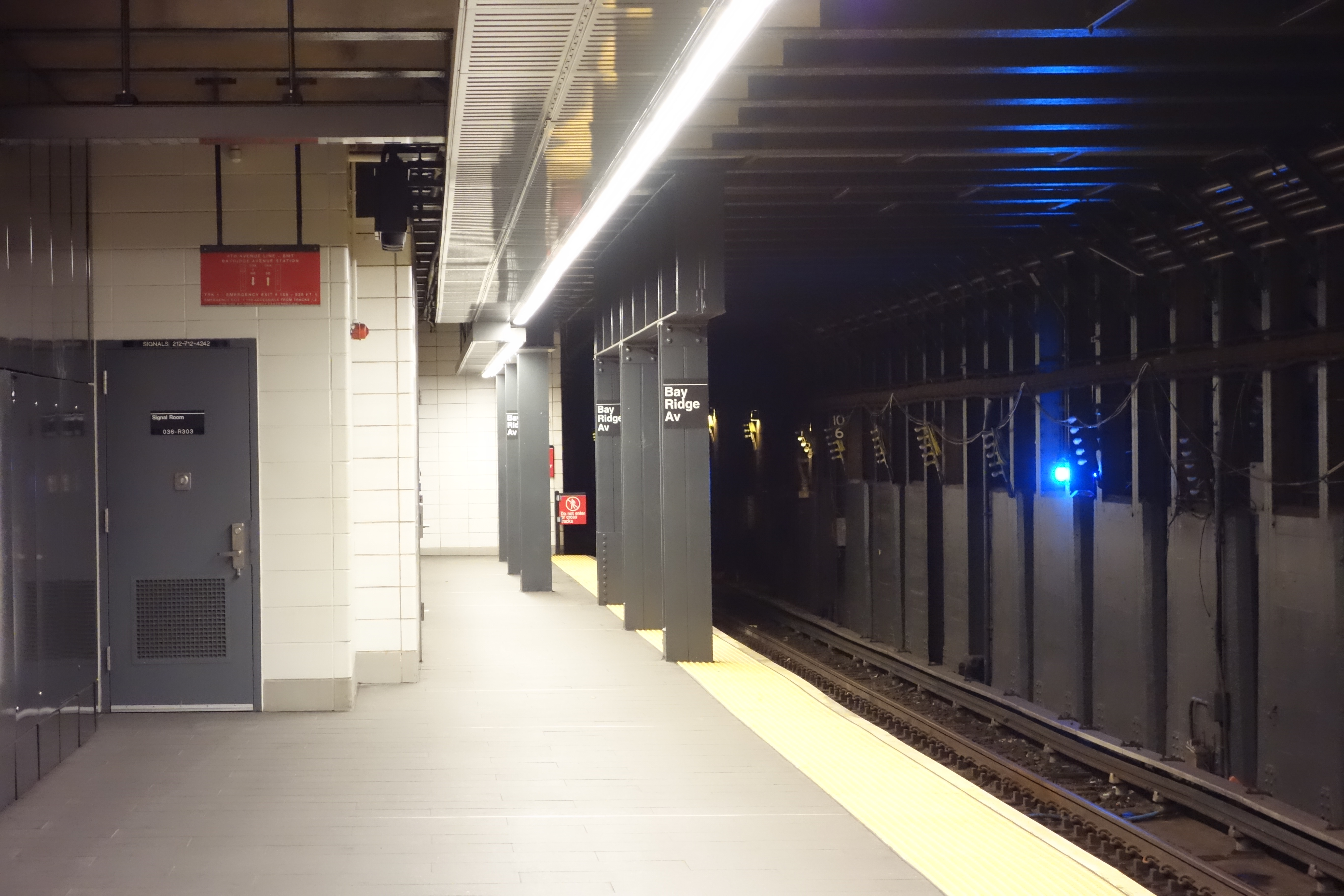 The far south end of the Manhattan-bound platform of the Bay Ridge Avenue BMT station, under 4th Avenue and Bay Ridge Avenue in Bay Ridge, Brooklyn. This platform is much wider than the Brooklyn-bound platform, as it was intended to be the Manhattan-bound express trackway had the station been expanded to four tracks to facilitate a Staten Island river tunnel. Note the six lonely columns at this end of the station; this was likely where the platform was extended to make it 600+ feet long.